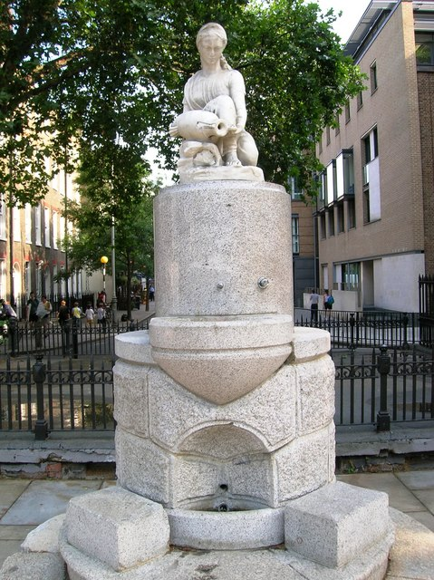 Water feature, Guilford Place WC1 Taken from Guilford Street WC1, looking up Lamb's Conduit Street WC1